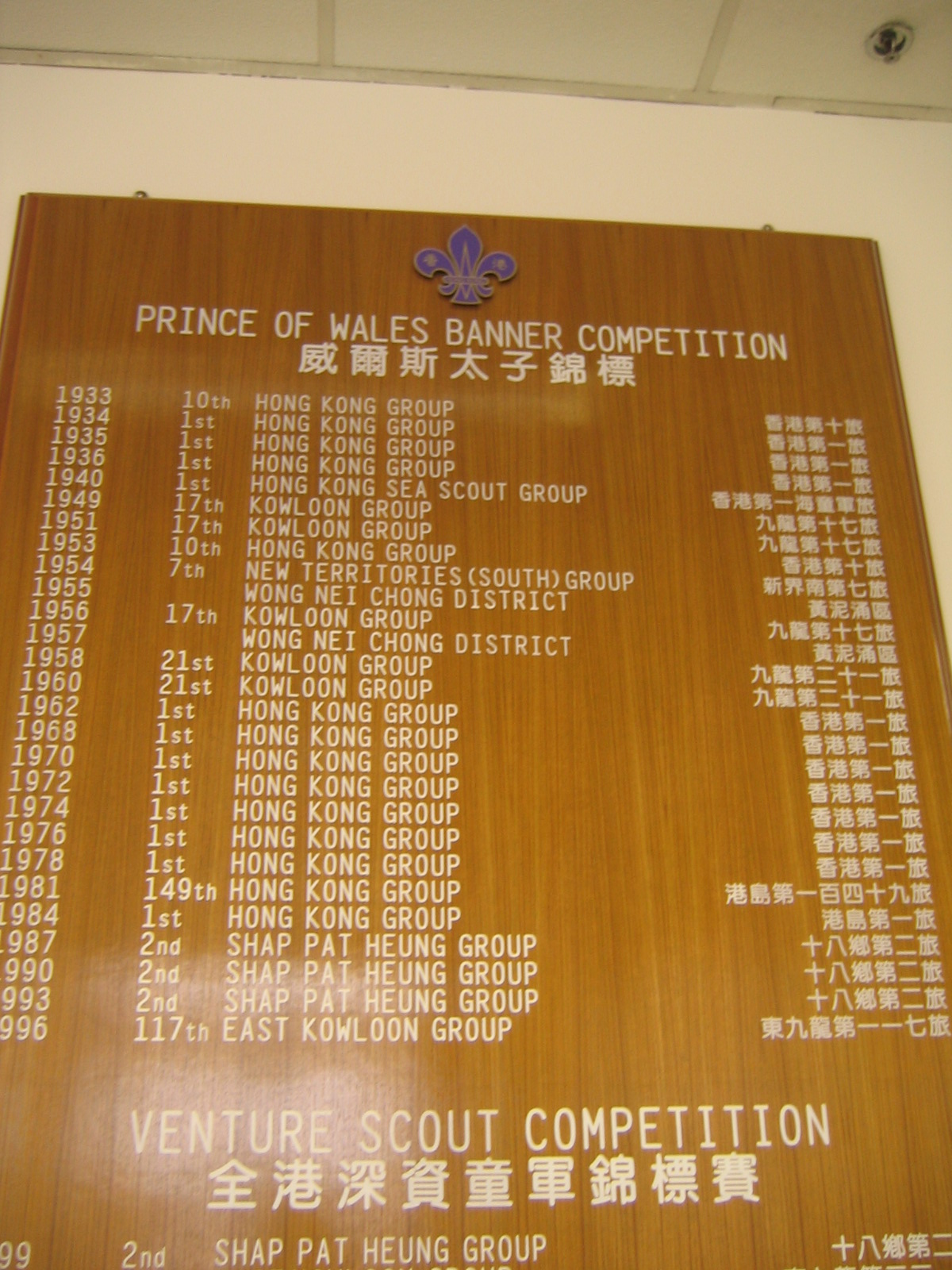 The winners plague of the Prince of Wales Banner Competition for Hong Kong Venture Scouts, taken in Hong Kong Scouts Museum